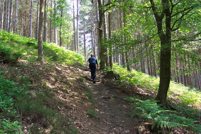 Path through the Hurt Wood. Climbing up from Gasson Farm to the Radnor Road